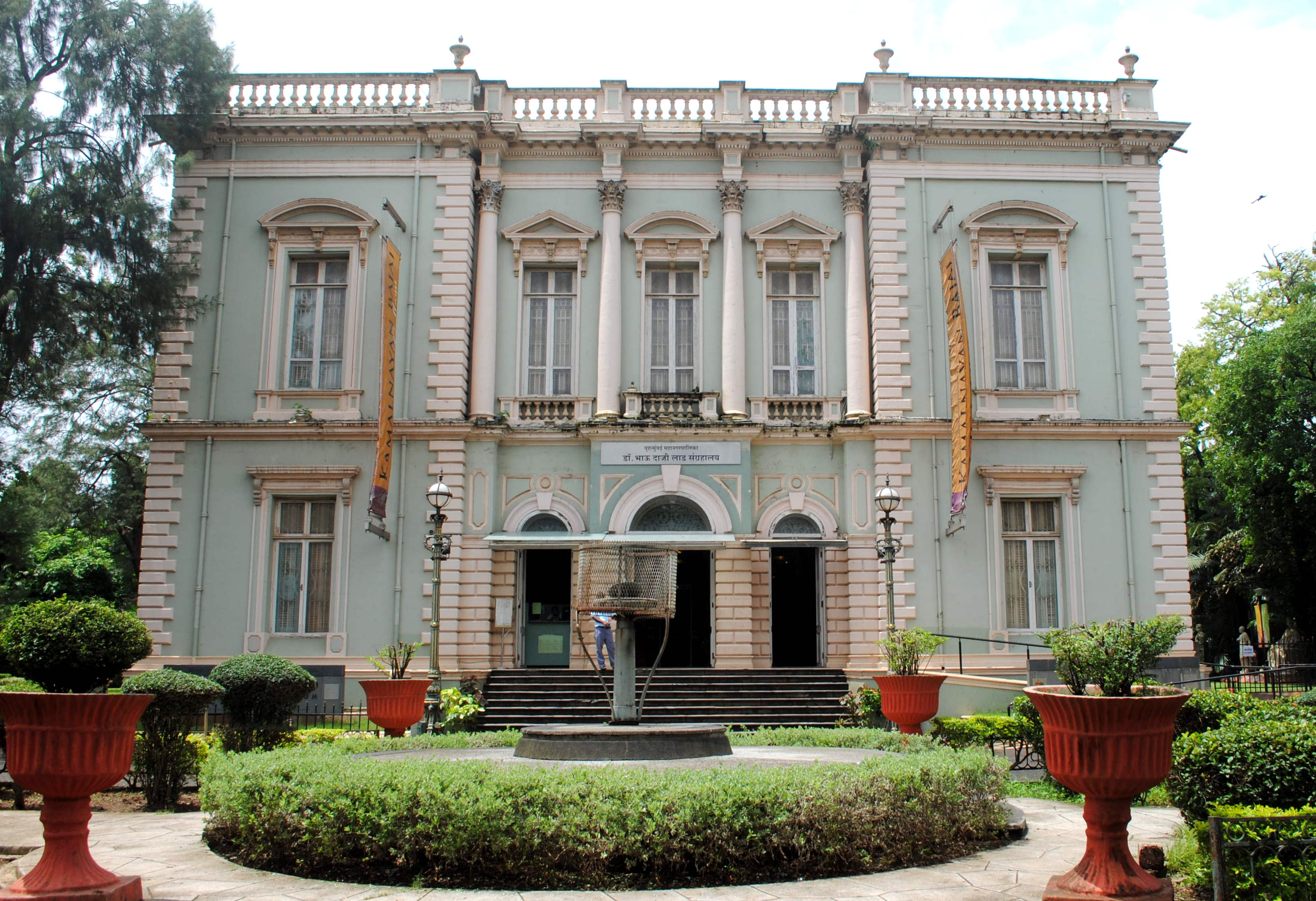 Formerly known as Victoria and Albert Museum, this is the oldest museum in the city of Mumbai. It is situtated in Jijamata Udyaan( Victoria Gardens).